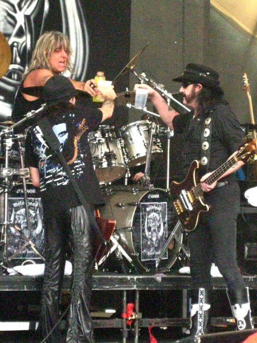 Motorhead performing in 2008